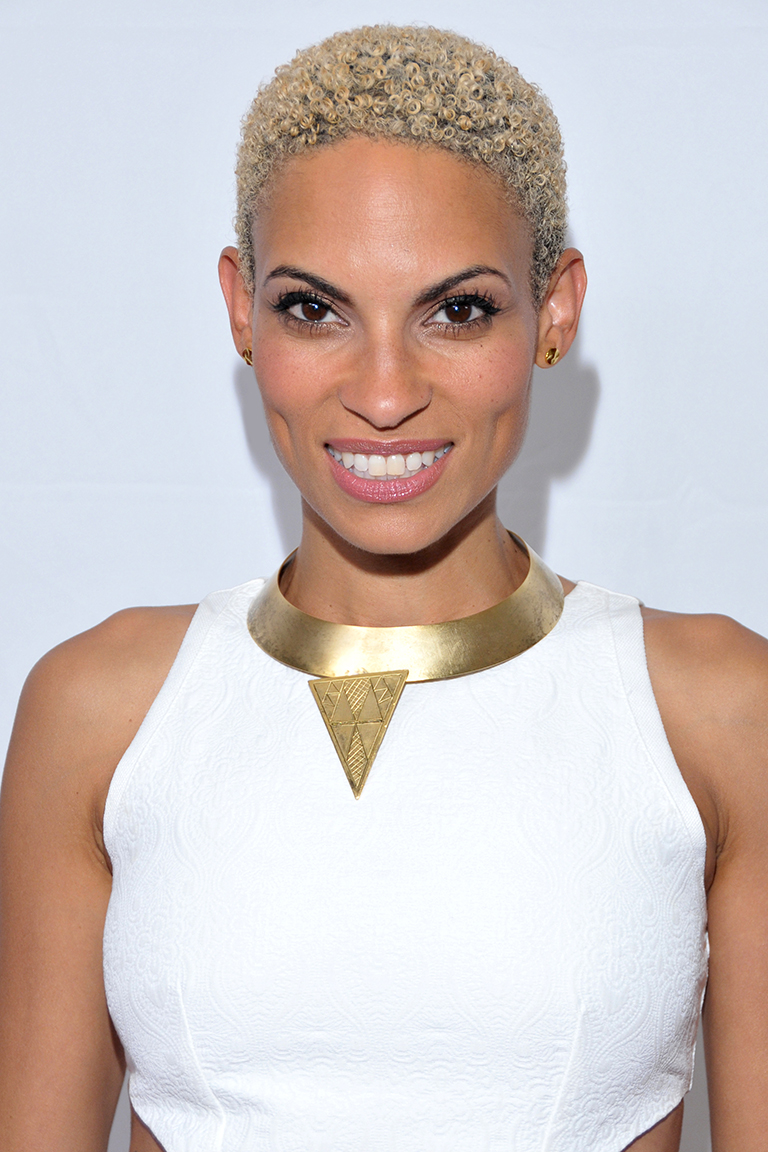 Goapele, Beverly Hills, California on June 25, 2015 - Photo by Glenn Francis of